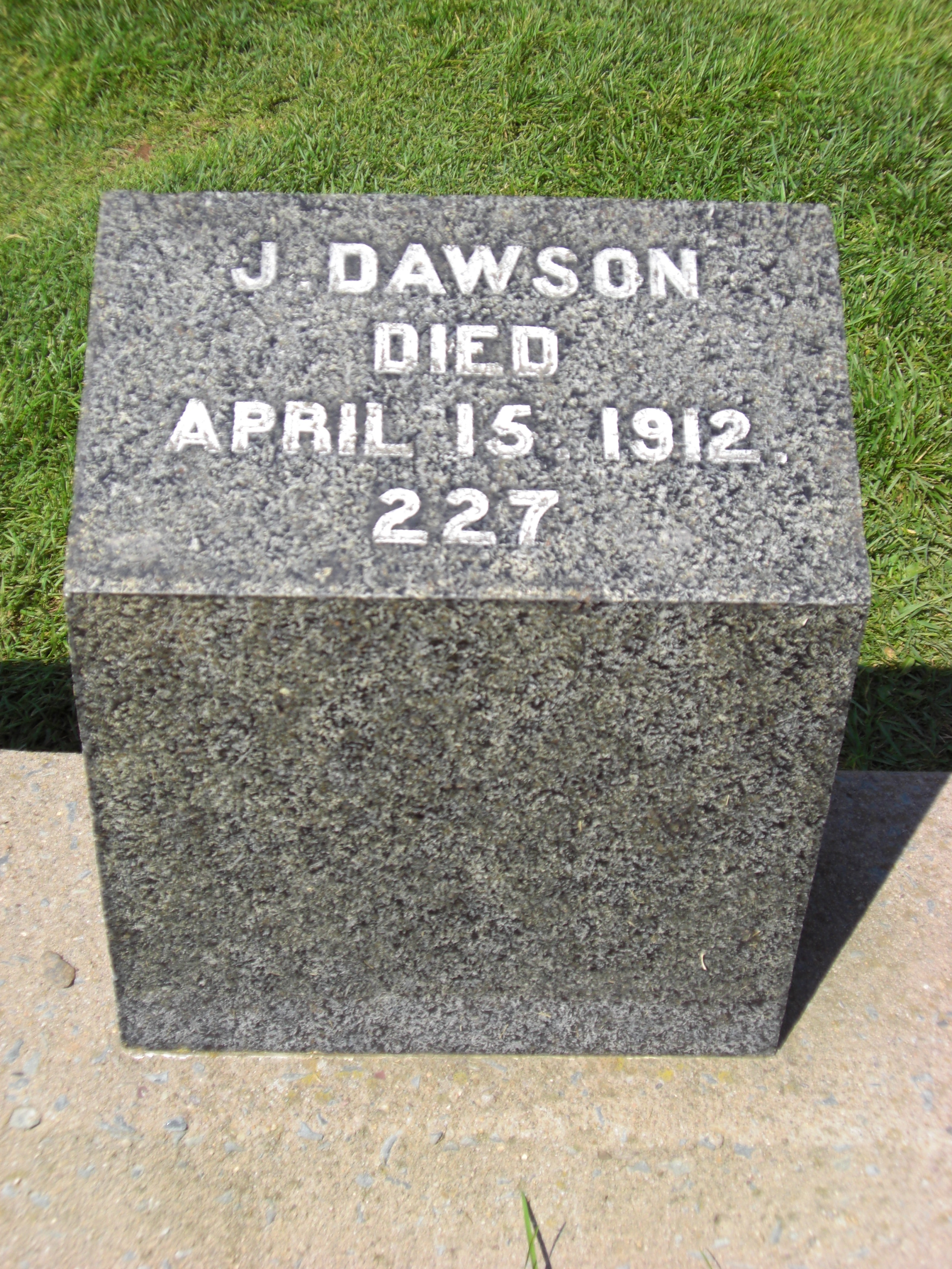 Gravestone of Joseph Dawson, member of the crew of the RMS Titanic. He died in the Titanic disaster on April 15, 1912 when the Titanic sunk into the Atlantic Ocean. many fans of the movie Titanic think that this gravestone belongs to Jack Dawson, who was the main character in the movie Titanic, played by Leonardo DiCaprio.